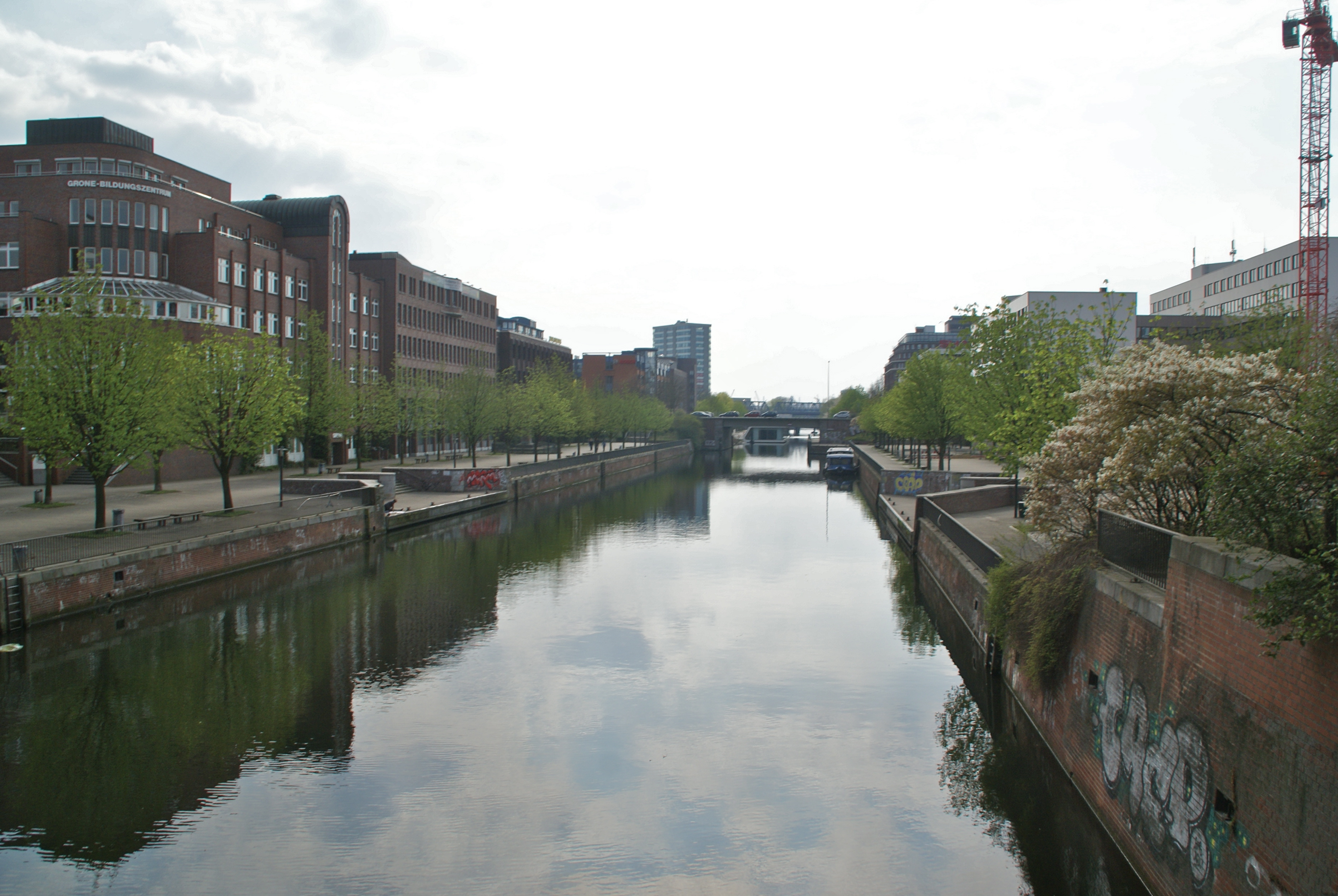 Hamburg (Hammerbrook), Germany: The Mittelkanal in western direction at the Hammerbrookstraße